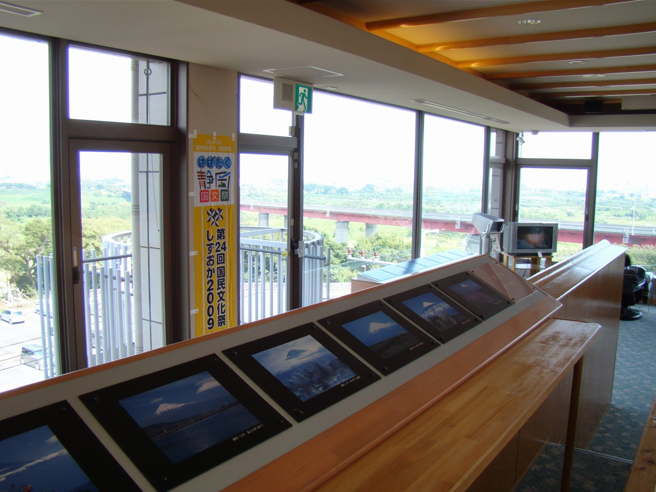 Observation lounge at Michinoeki Fujikawa Rakuza in Shizuoka Prefecture, Japan